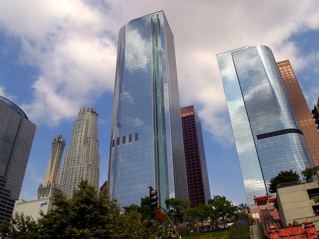 Skyline of Los Angeles, California